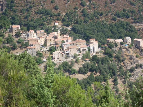 Castiglione